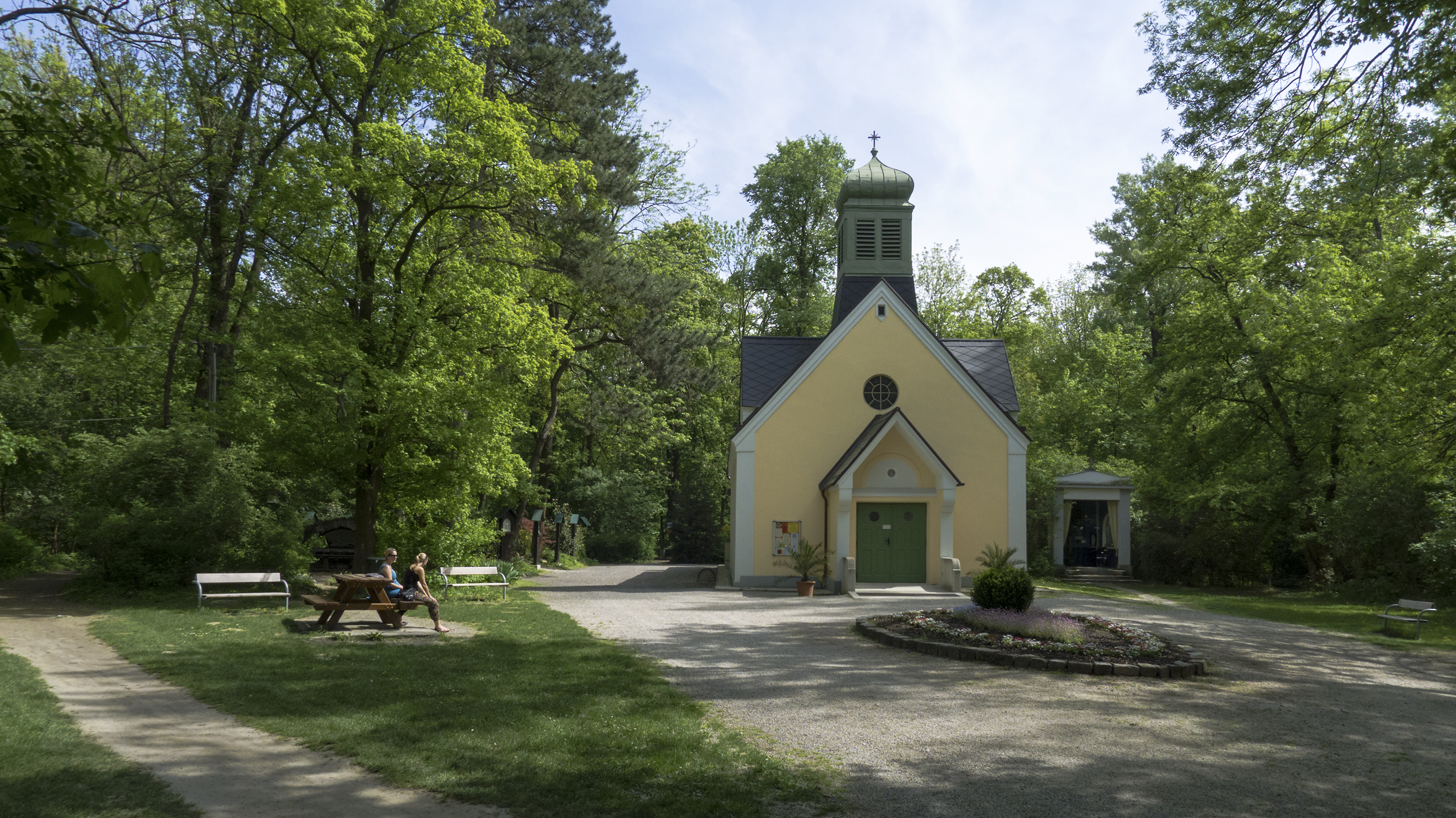 Church Maria Grün in Vienna 2